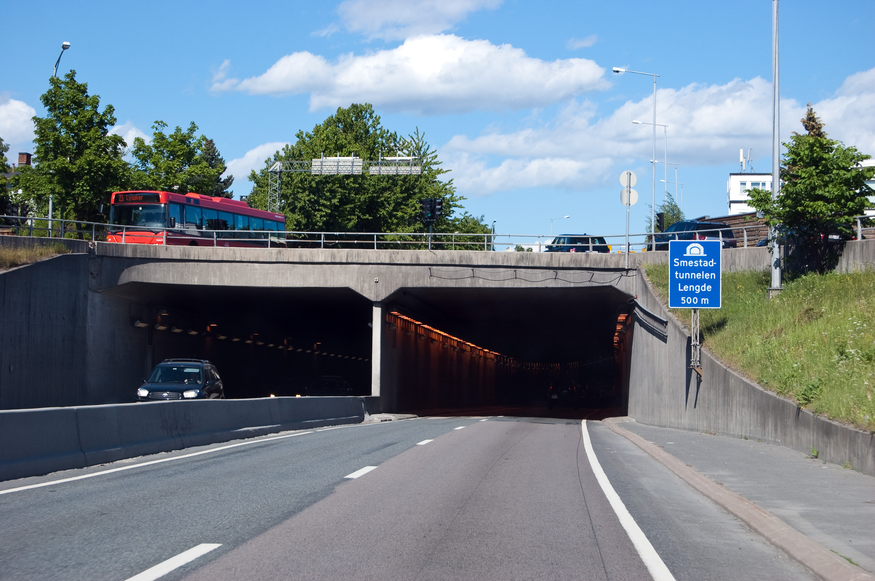 Smestadtunnelen, a tunnel on Ring 3 in Oslo, Norway